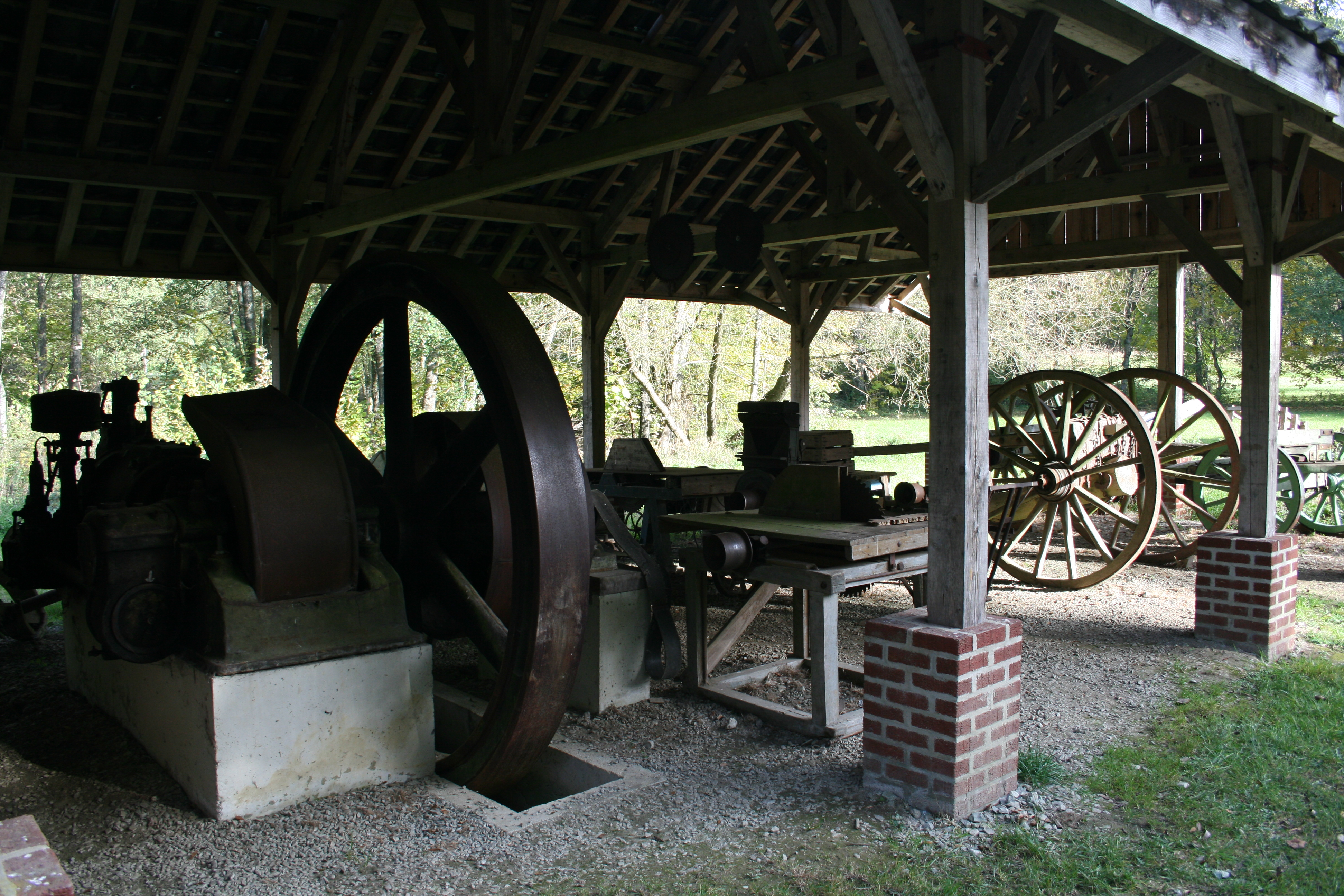 Deutz engine (± 1900) of the former Cassart sawmill - Domaine du Fourneau Saint-Michel - Museum of Rural Life in Wallonia - Saint-Hubert (Belgium).